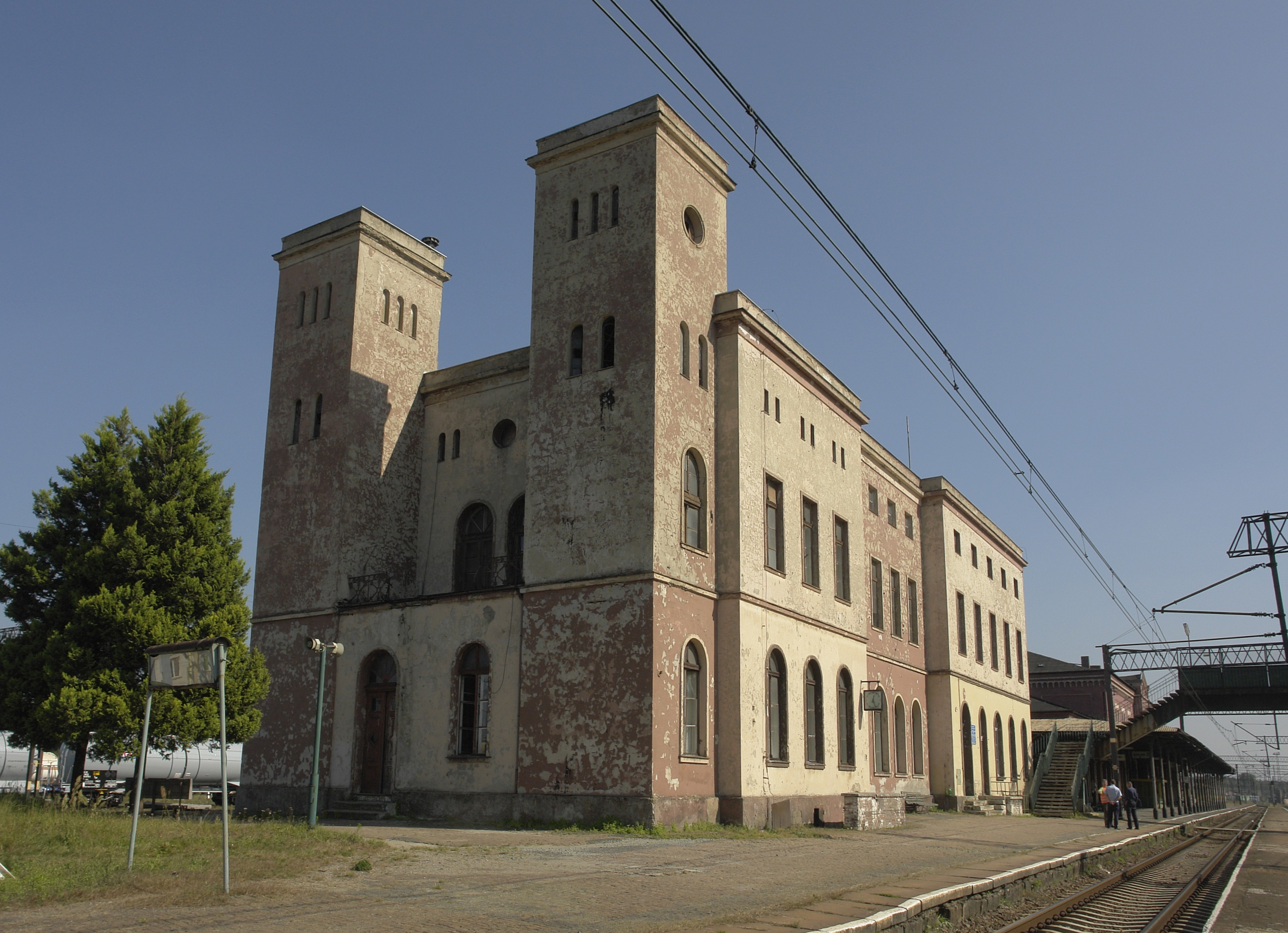 Railway station buildings in Węgliniec, Poland